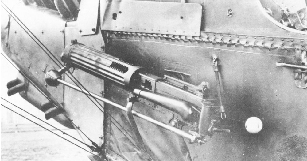 Mounting of synchronised Vickers gun on R.E.8